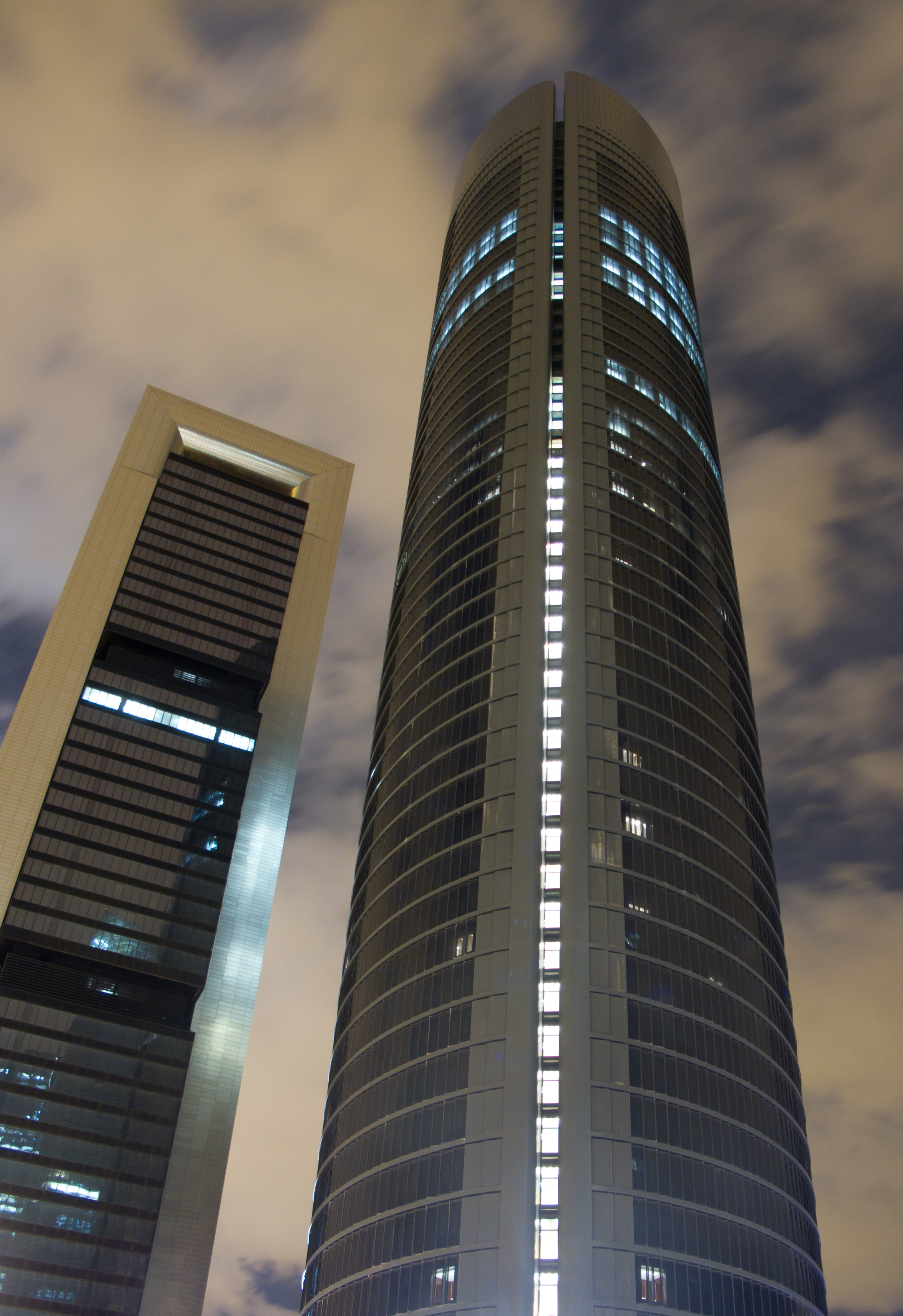 Torre Caja Madrid and Torre Sacyr Vallehermoso at night (Madrid, Spain).